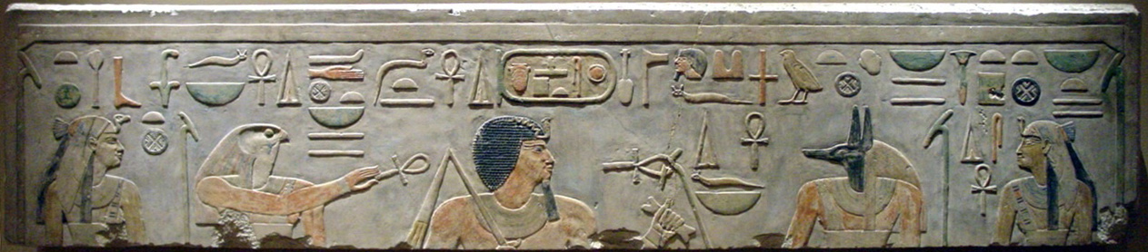 A relief of pharaoh Amenemhet I before Egypt's deities, from his funerary temple at El-Lisht. Amenemhet I was the founder of the 12th dynasty of Egypt. The relief is now located in the Metropolitan Museum of New York.